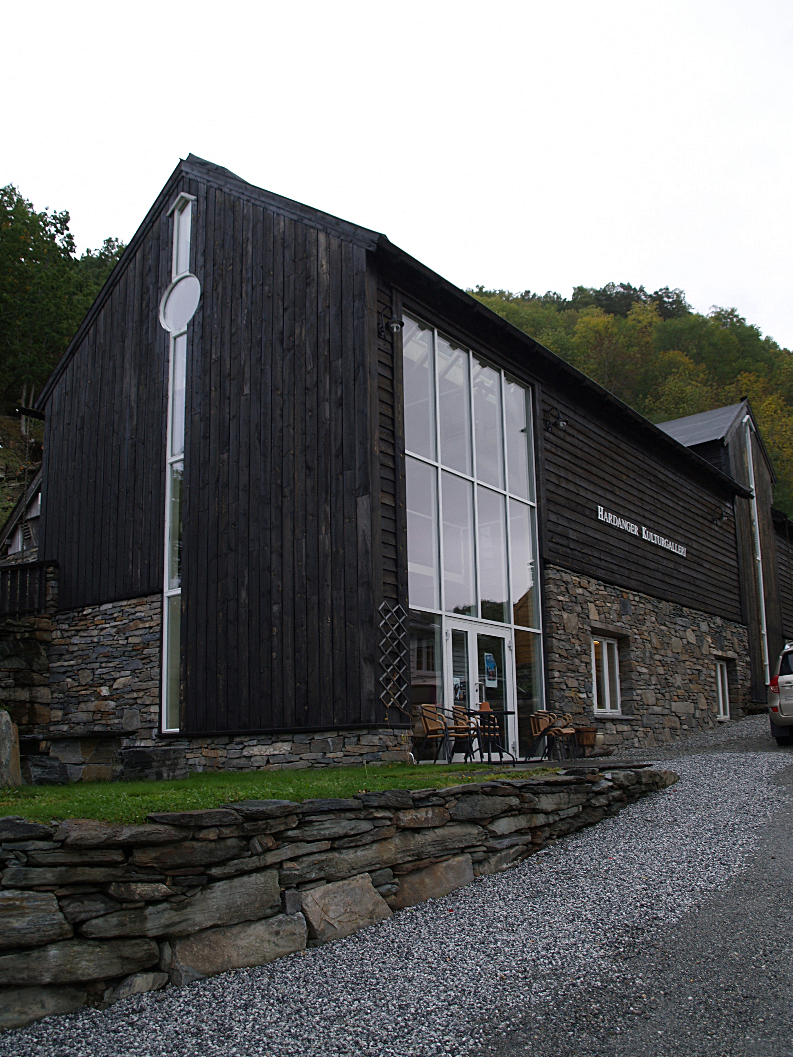 Gallery near Herand in Jondal, Hardanger